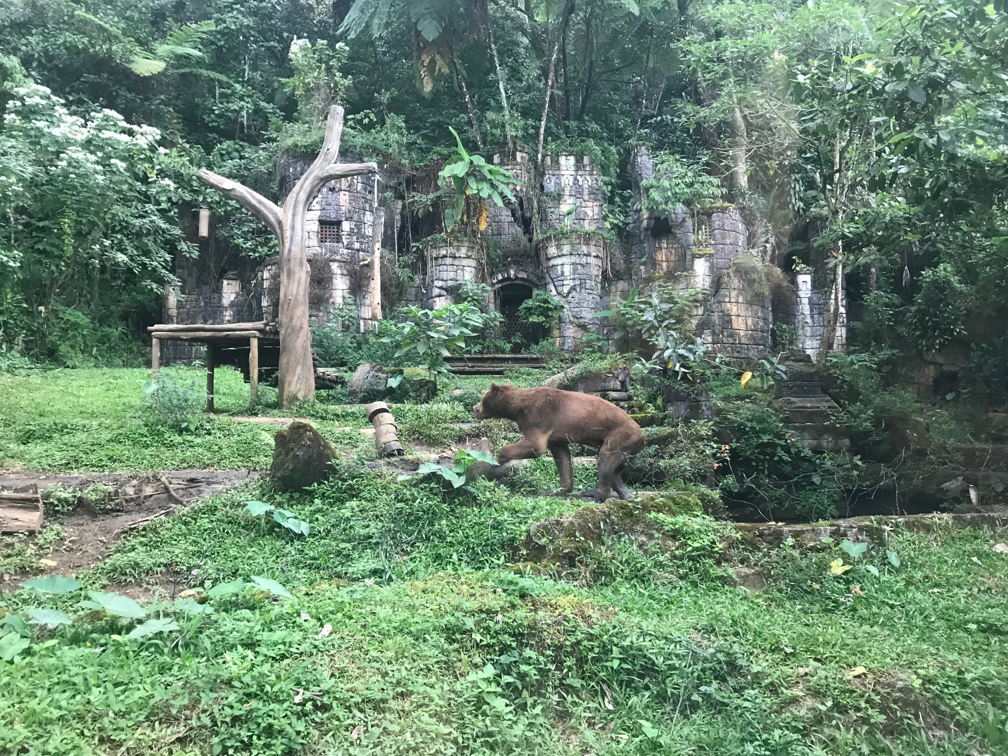 Bear at Taman Safari Bogor